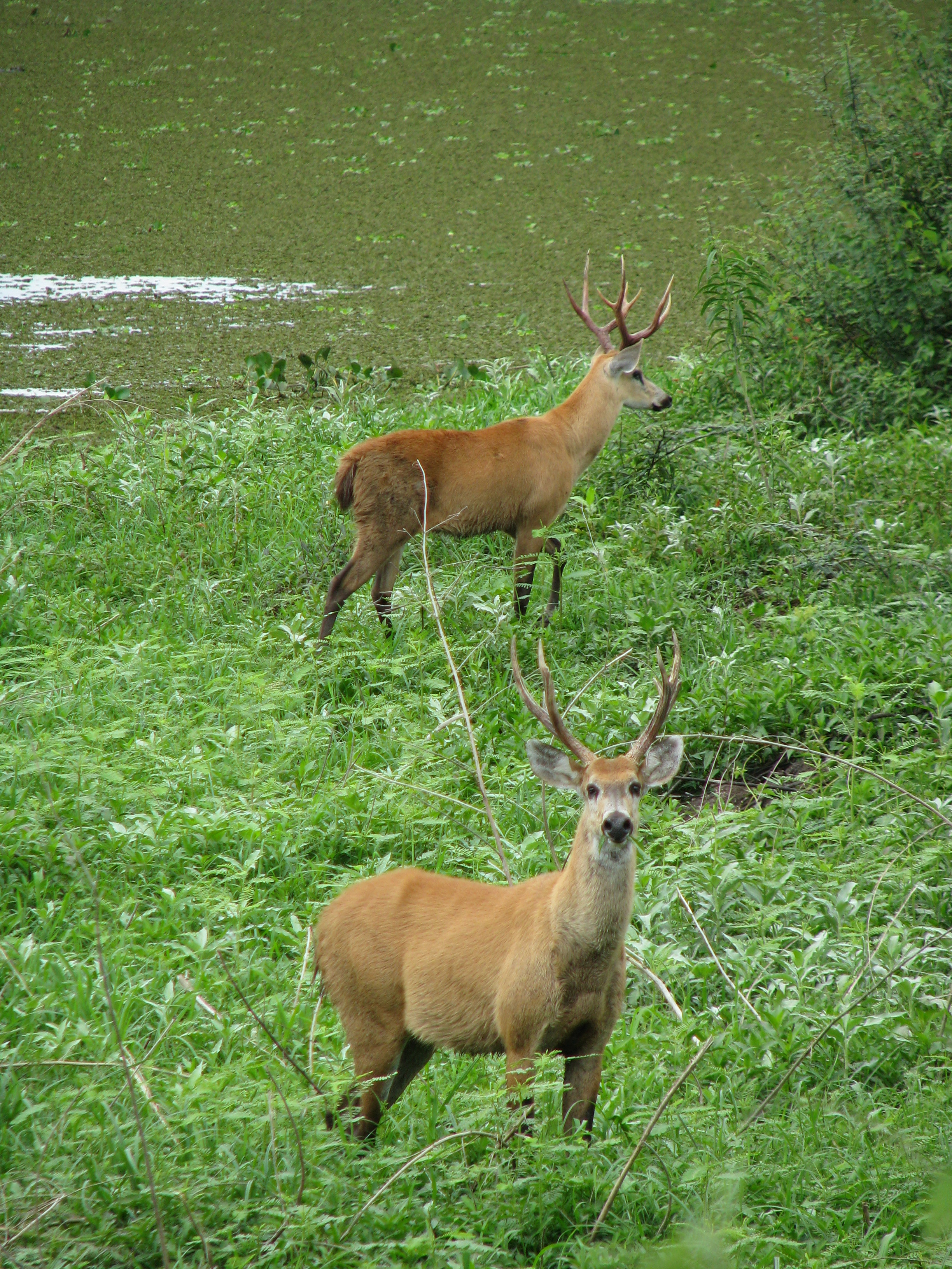 Two marsh deers males on Pantanal, Brazil, Mato Grosso do Sul.